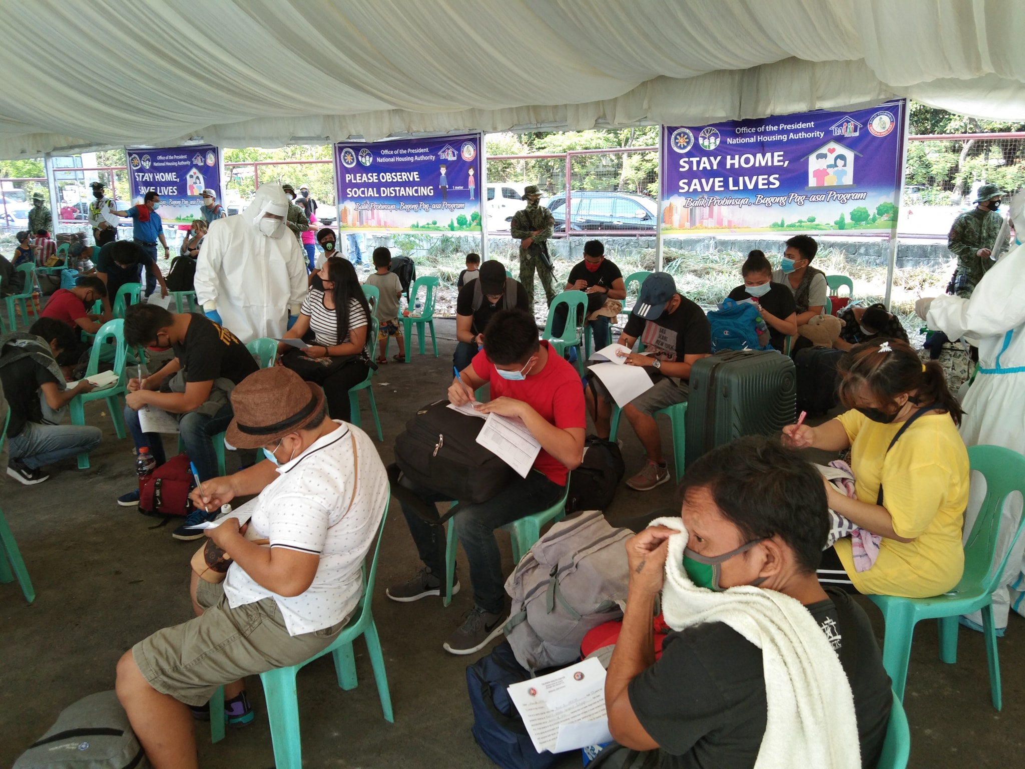 Scene at the Balik Probinsya, Bagong Pag-Asa (BP2) Program processing area in Quezon City where qualified beneficiaries observe strict physical distancing prior to departure. (PIA NCR)